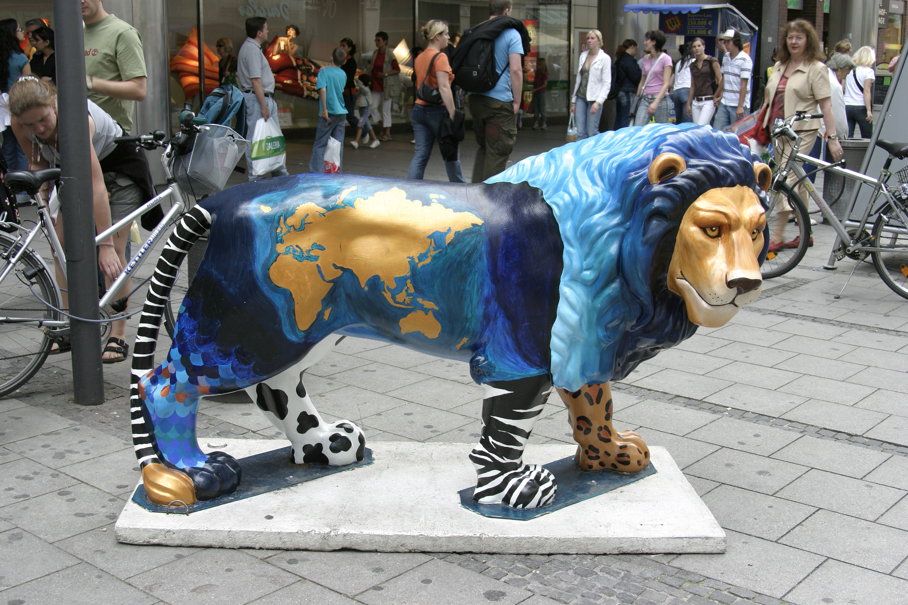 Munich – Lion’s parade